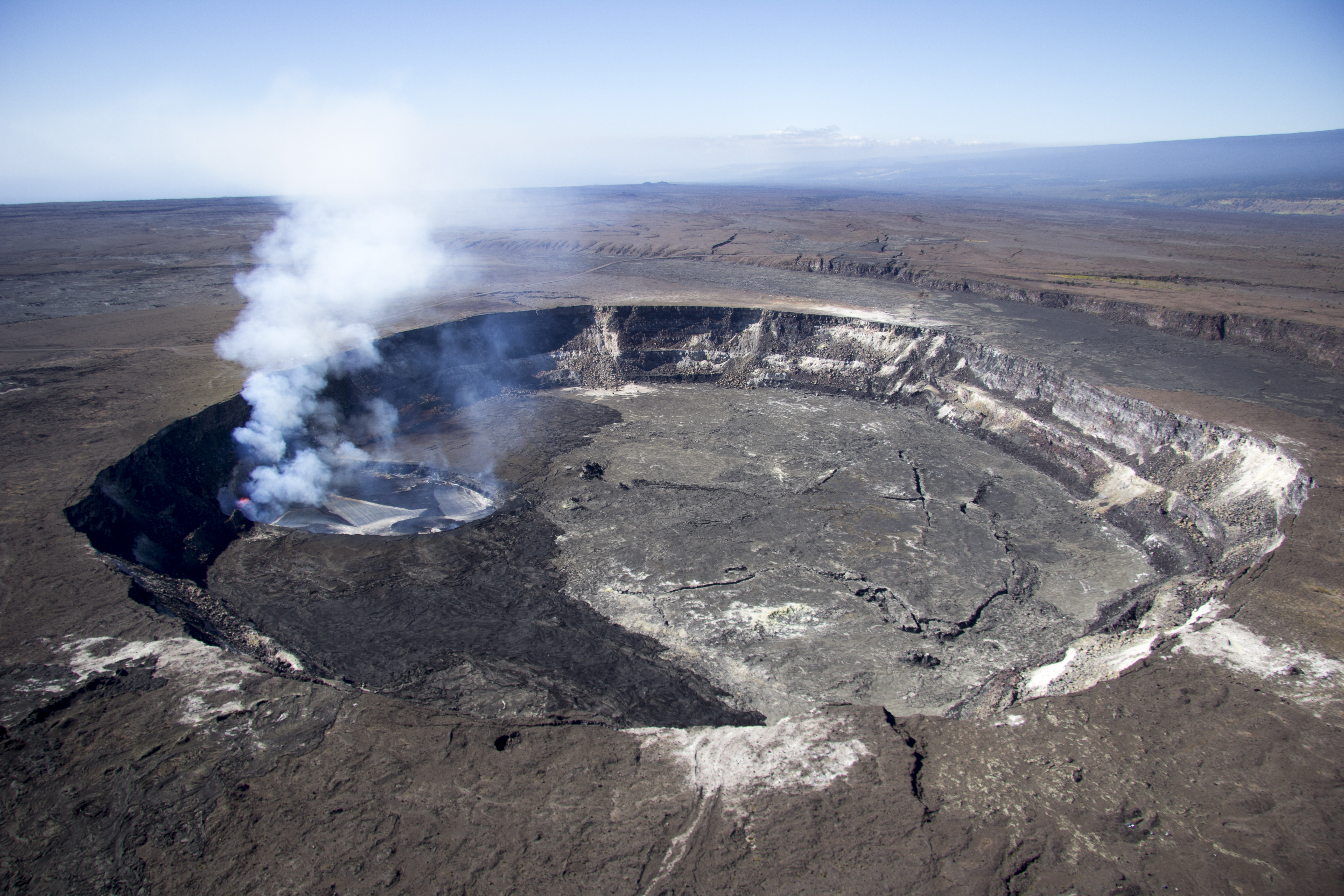 View into Halemaʻumaʻu crater with lava lake. Halemaʻumaʻu Crater, shown here, is about a kilometer (0.6 miles) across and contains a lava lake in a smaller crater, informally called the Overlook crater, at its southeast edge. The lava lake is about 250 m (~820 ft) long and 180 m (~590 ft) wide and, when this photo was taken, the surface of the lake was about 15 m (~50 ft) below the Overlook crater rim. The view is to the southwest, looking out into the Kaʻū Desert in the distance. The western slope of Mauna Loa forms the skyline to the right. (November 3, 2016 — Kīlauea; 02.02.2017)